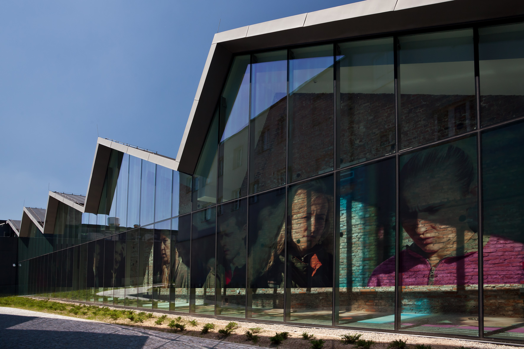 MOCAK Museum of Contemporary Art in Krakow, fot. Rafał Sosin